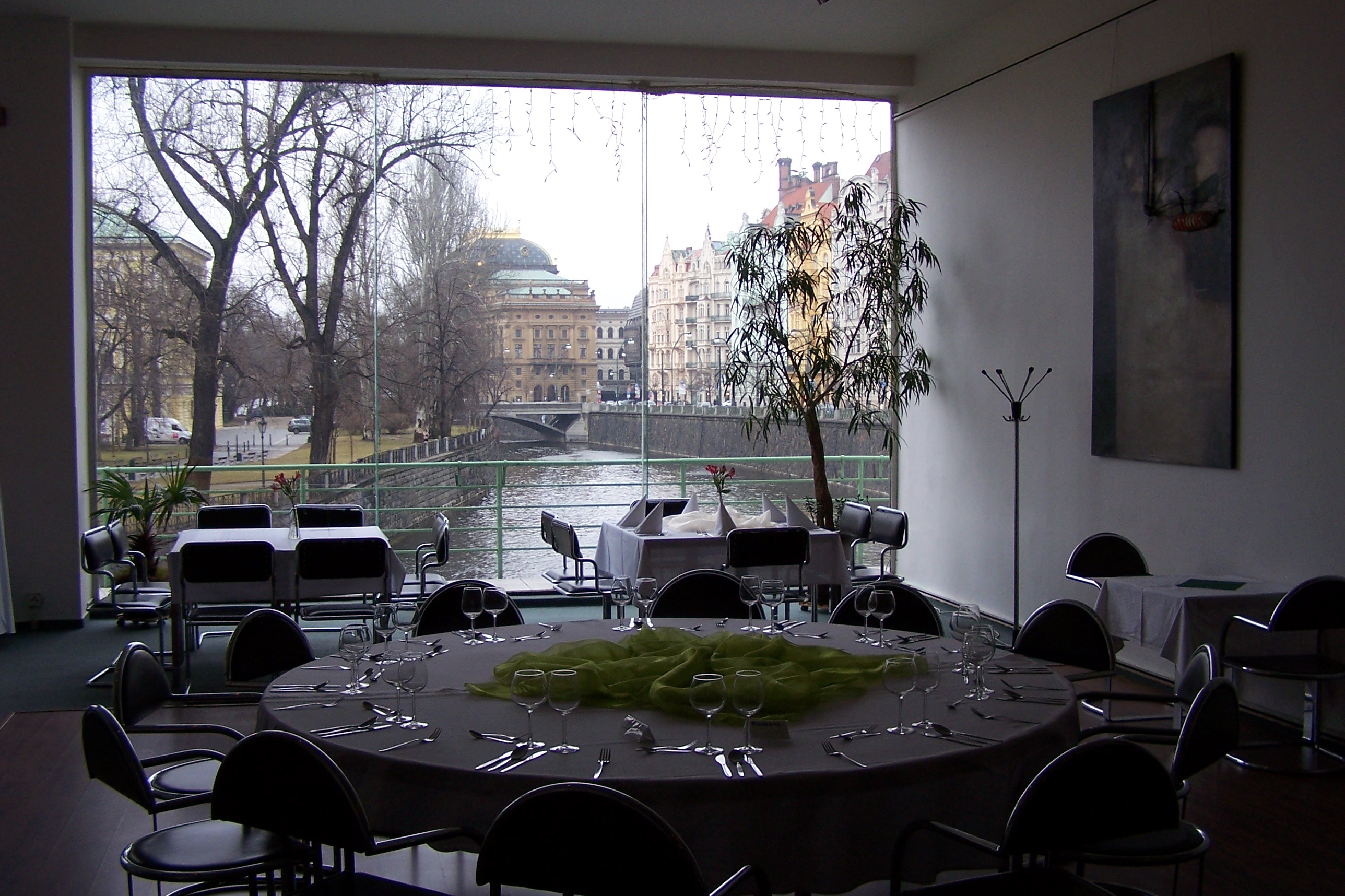 Mánes building - Praha, interior.